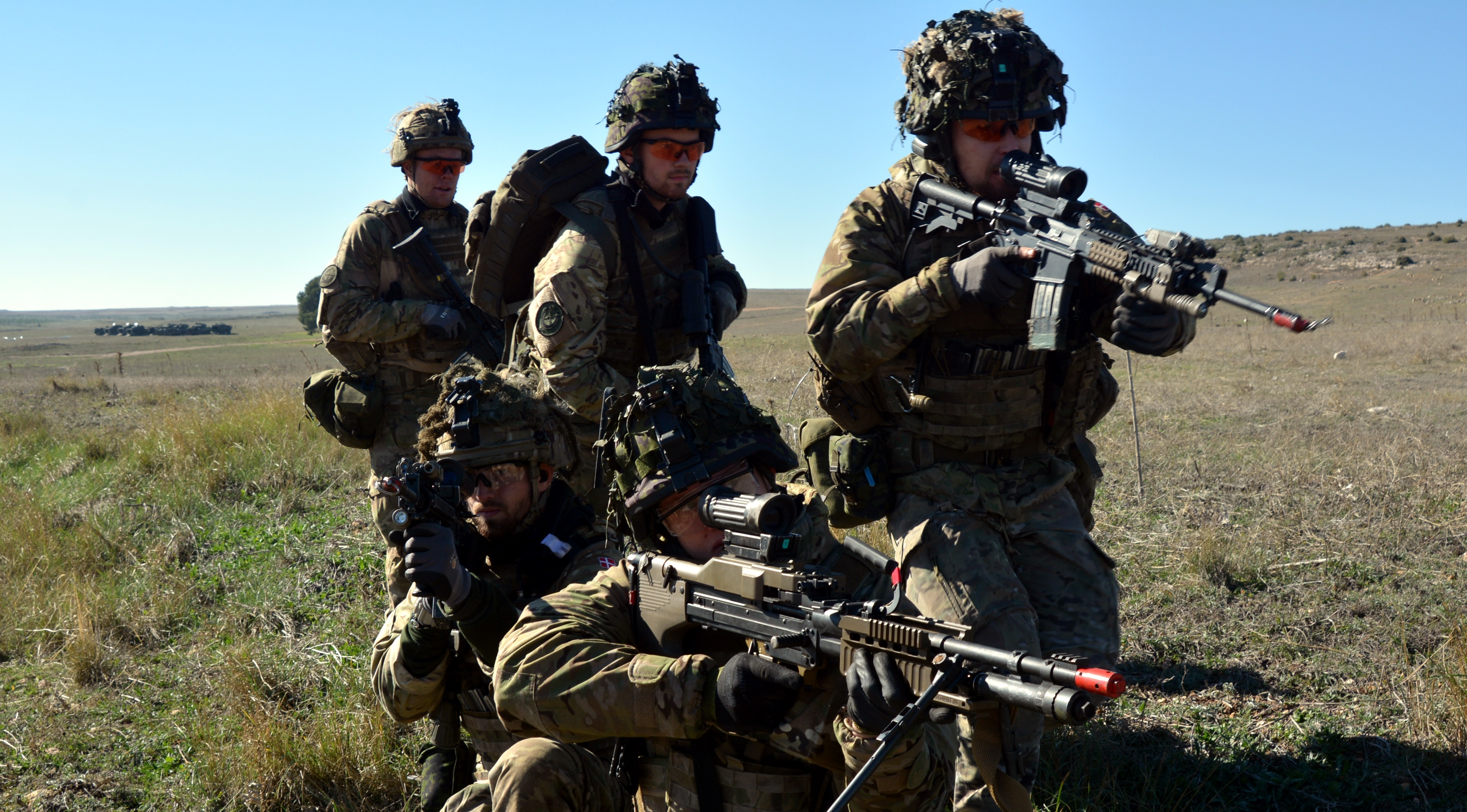 Danish soldiers move through the training area on patrol at Chinchilla, Spain on October 22, 2015 during NATO exercise Trident Juncture 15.